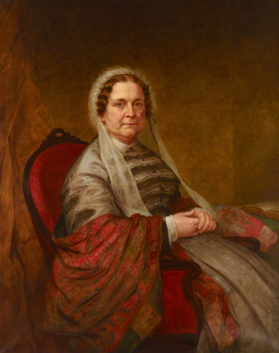 American School; Margaret Rebecca Armstrong (1800-1872), Mrs William Backhouse Astor; National Trust, Cliveden